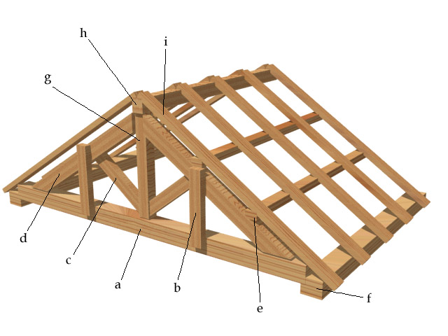 yogoya, Japanese roof structure in western style.